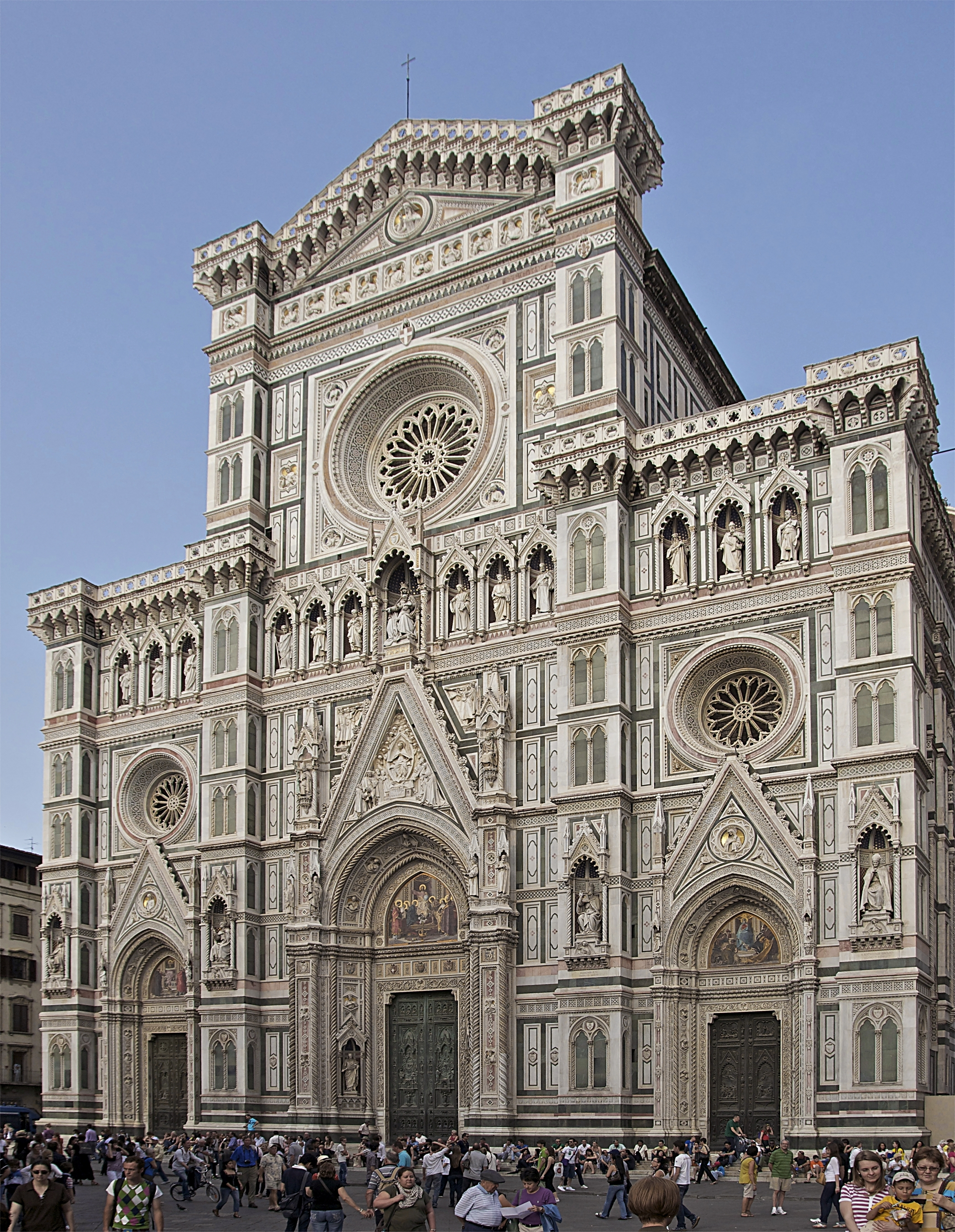 The façade of Santa Maria del Fiore, the Florence Cathedral. Annotations for the three mosaics tympanums